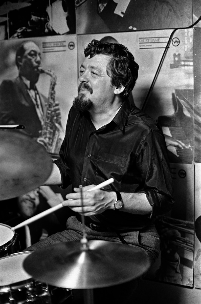 Photograph of the Finnish drummer Christian Schwindt (1940–1992).